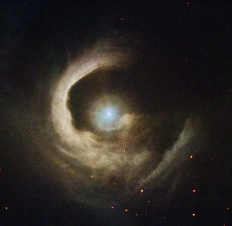 I love finding these sorts of things hidden away in the archive. This is a variable star named V1331 Cyg nestled within some clouds. It looks like a gate to some fantasy world. The blank quadrant in the upper right is actually the tip of a dust cloud present in the foreground. See some context here . V1331 Cyg is at the top center edge in Adam Block's image. The clouds are actually rather monochrome, I think. Some slight variations in color you see are due to some banding anomalies which are rather difficult to deal with. I greatly reduced some very large diffraction spikes and charge bleeds to a point where they are hardly visible. This makes it easier to see the cloud formations which are very near the star. There were also some very short exposures I used to make the central star really tiny. Data came from two proposals: 11976 & 08216 Red: WFPC2 WF F814W (11976) Green: WFPC2 WF F606W (11976 & 08216) Blue: WFPC2 WF F450W (11976) North is NOT up. It's 7.6° counter-clockwise from up.